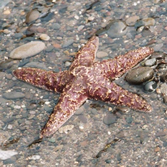 Ochre sea star from Olympic National Park, USA, taken June 2003. Kodak PhotoCD image from 35mm film camera.